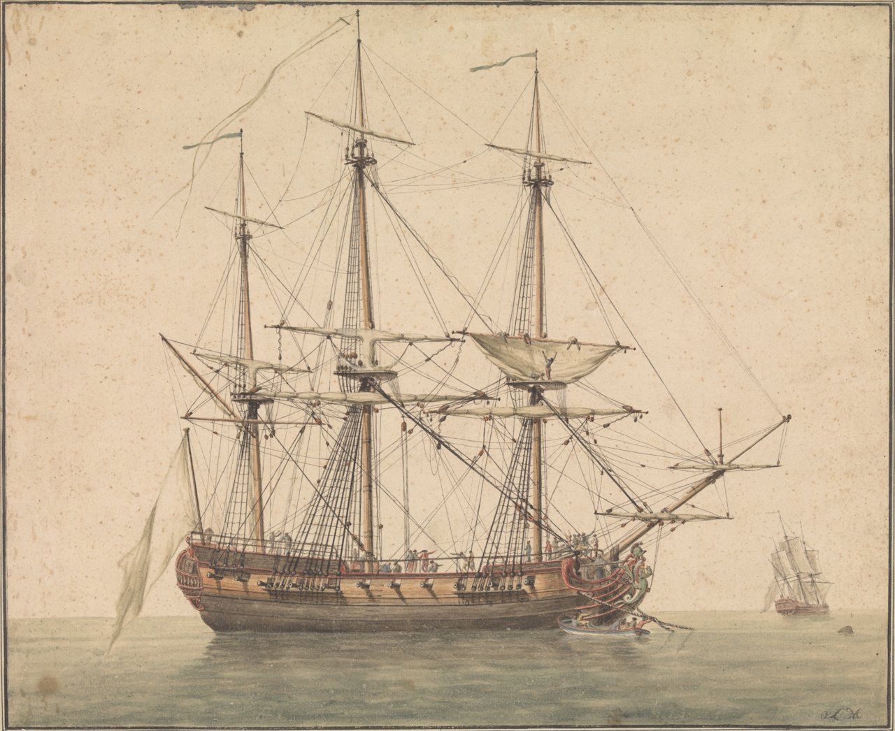 French frigate ab 1780. Drawing.